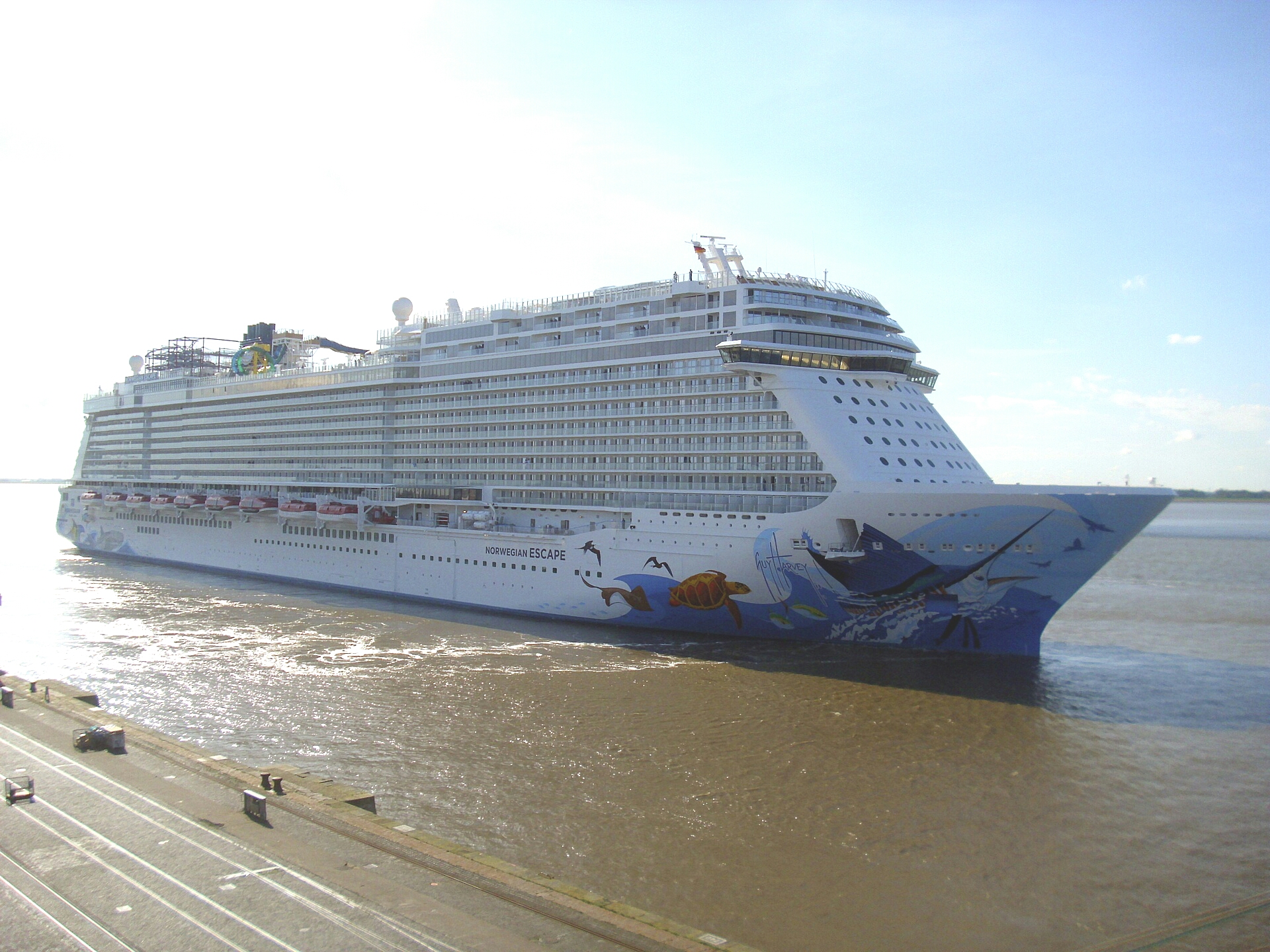 The new built cruise ship Norwegian Escape has just left the Columbus Cruise Center in Bremerhaven, Germany, for a sea trial journey